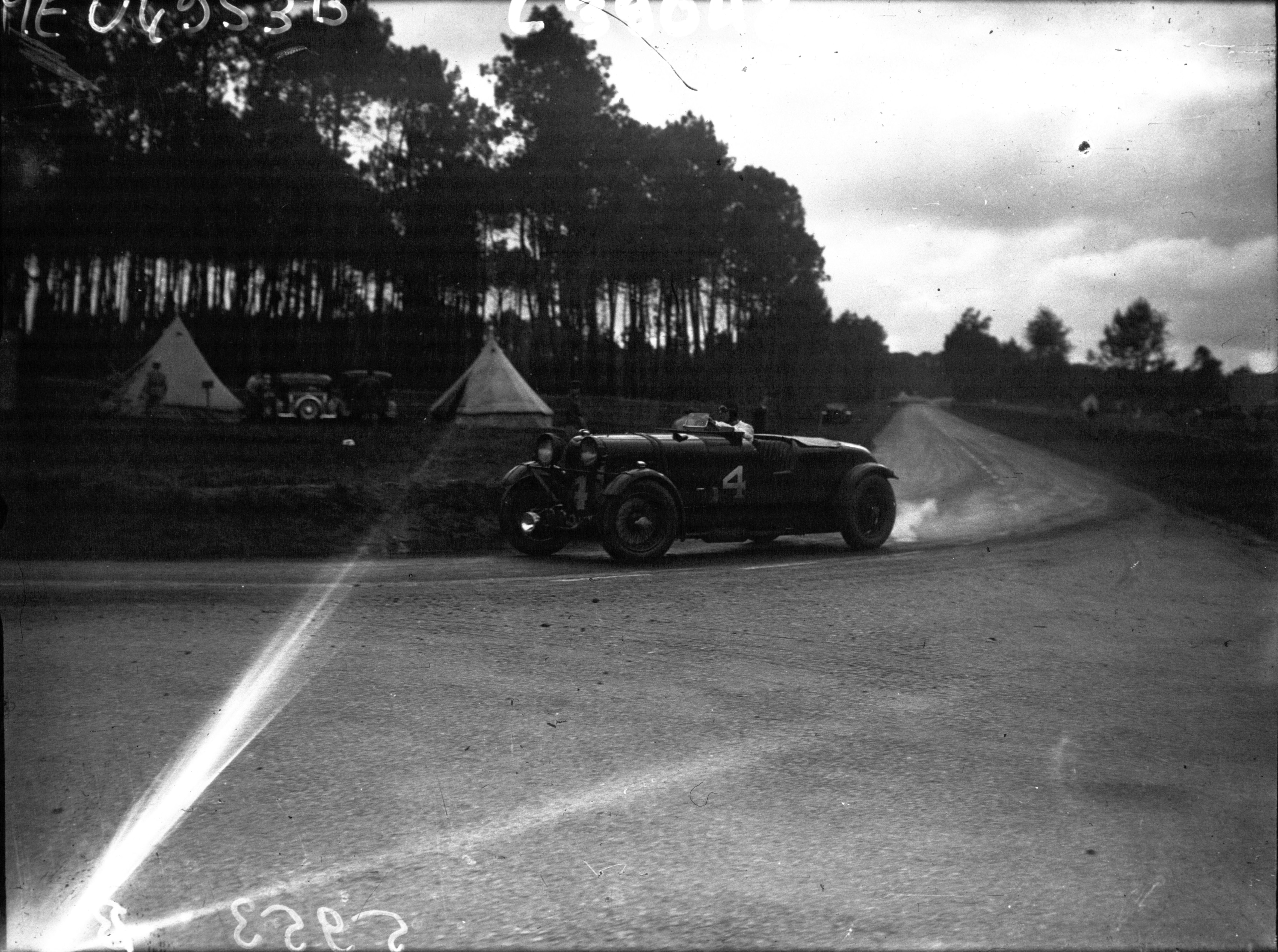 Lagonda #4 of Hindmarsh and Fontés at the 1935 24 Hours of Le Mans.